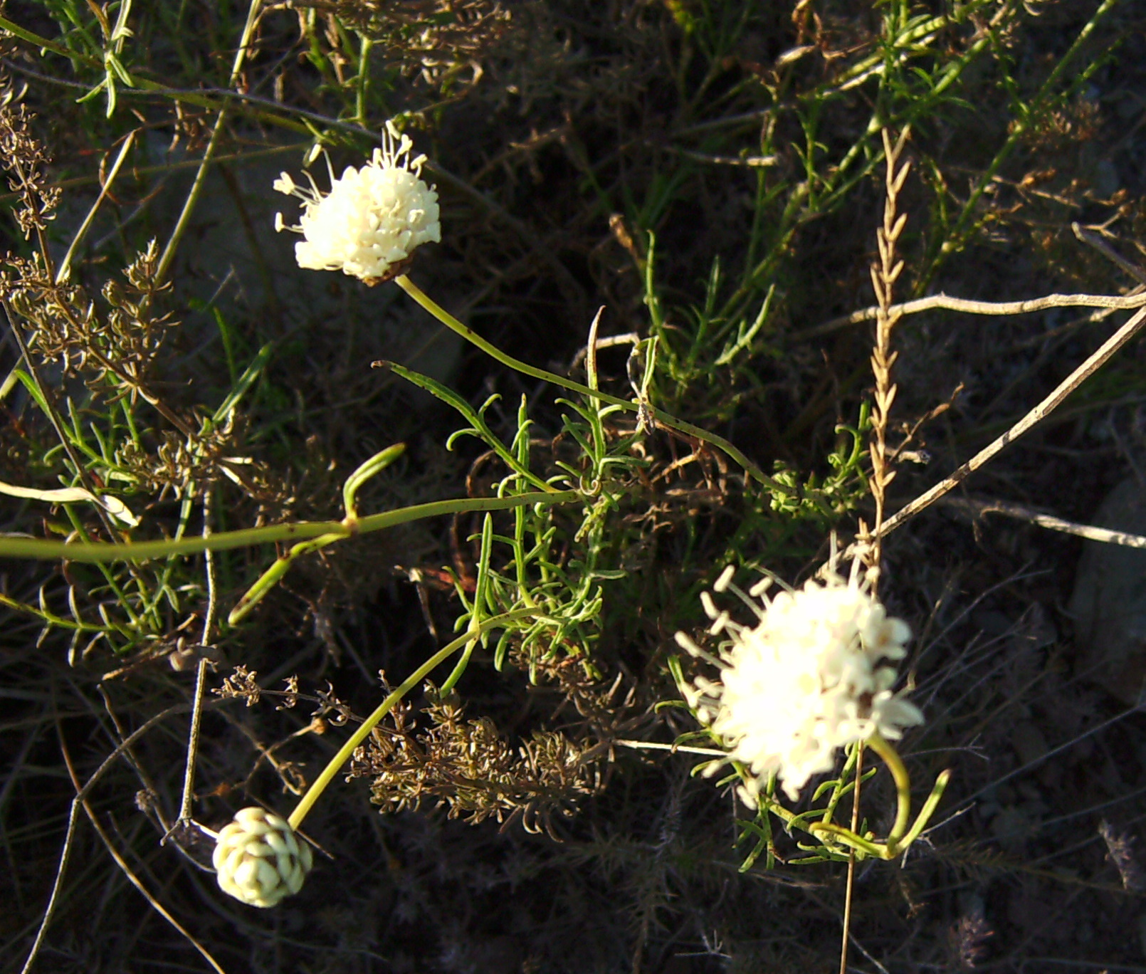 Cephalaria leucantha flowers, Castelltallat, Catalonia